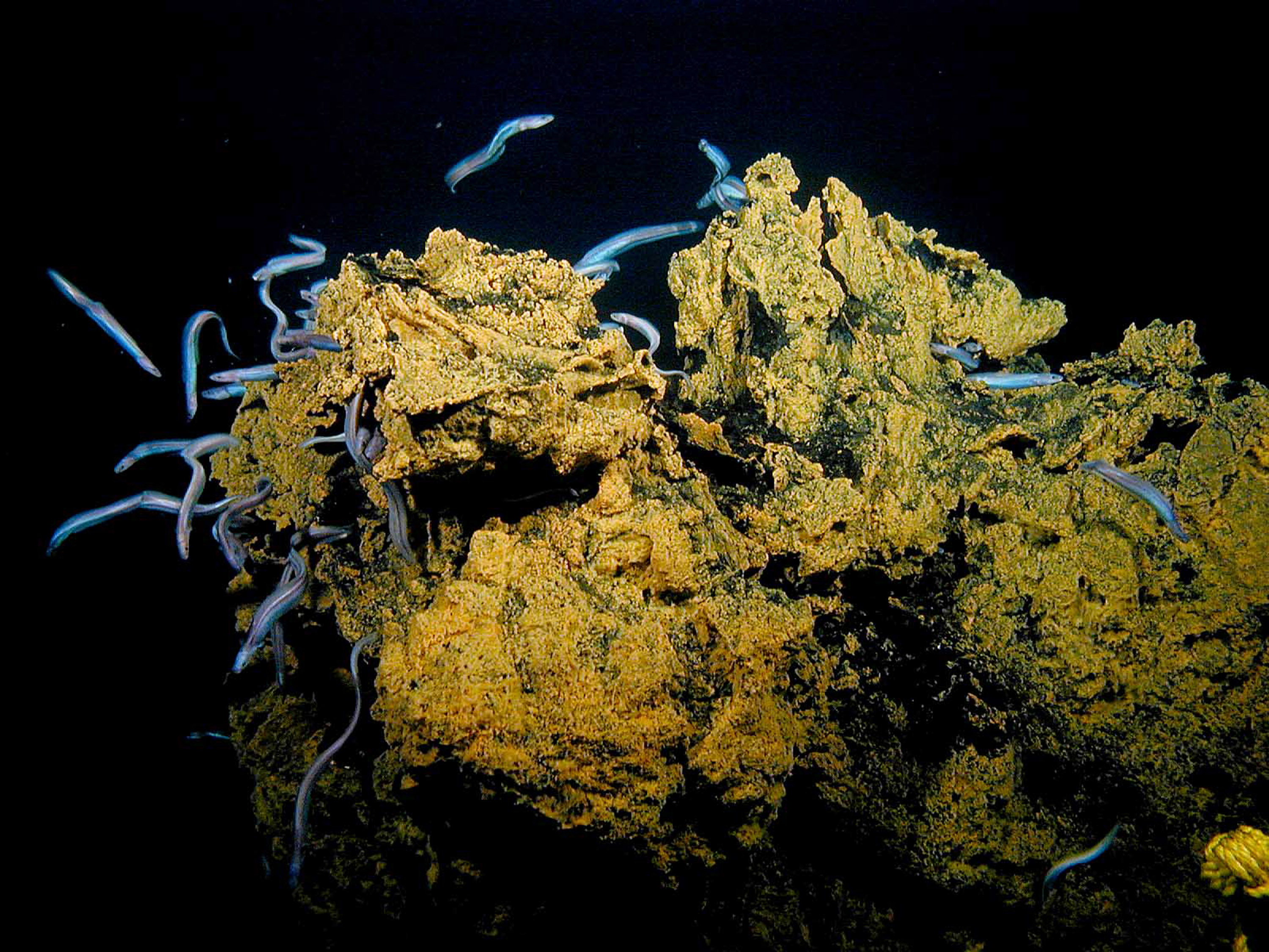 Swarms of small synaphobranchid eels, Dysommina rugosa, live in the crevices on the summit of Nafanua. Scientists dubbed this site "Eel City." Image ID: expl1534, Voyage To Inner Space - Exploring the Seas With NOAA Collect Location: Pacific Ocean, American Samoa Photo Date: 2005 Credit: Image courtesy of Vailulu'u 2005 Exploration, NOAA-OE